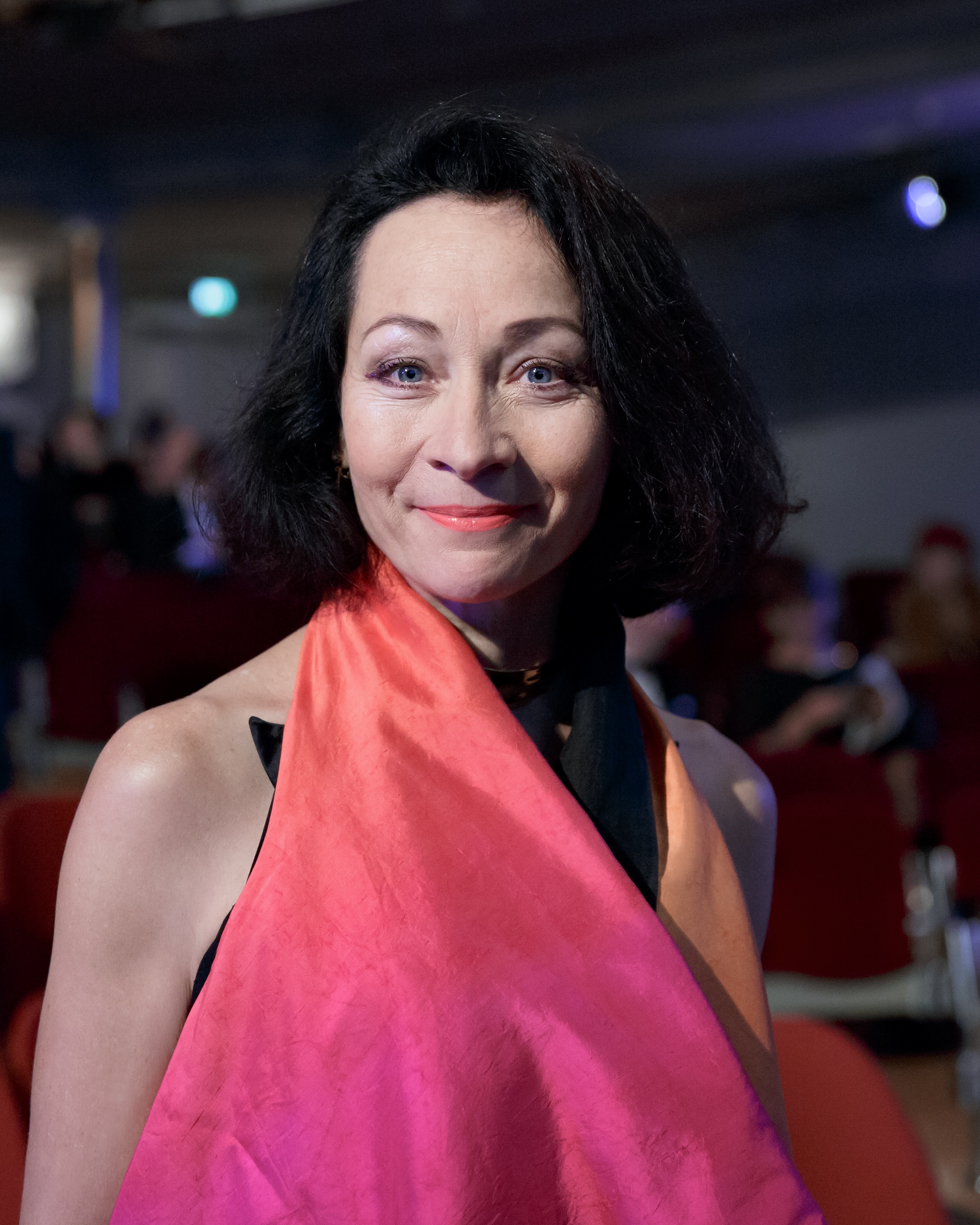 Sona MacDonald, awarded as best actress, at the Nestroy Theatre Awards 2016 (Ronacher, Vienna, Austria).